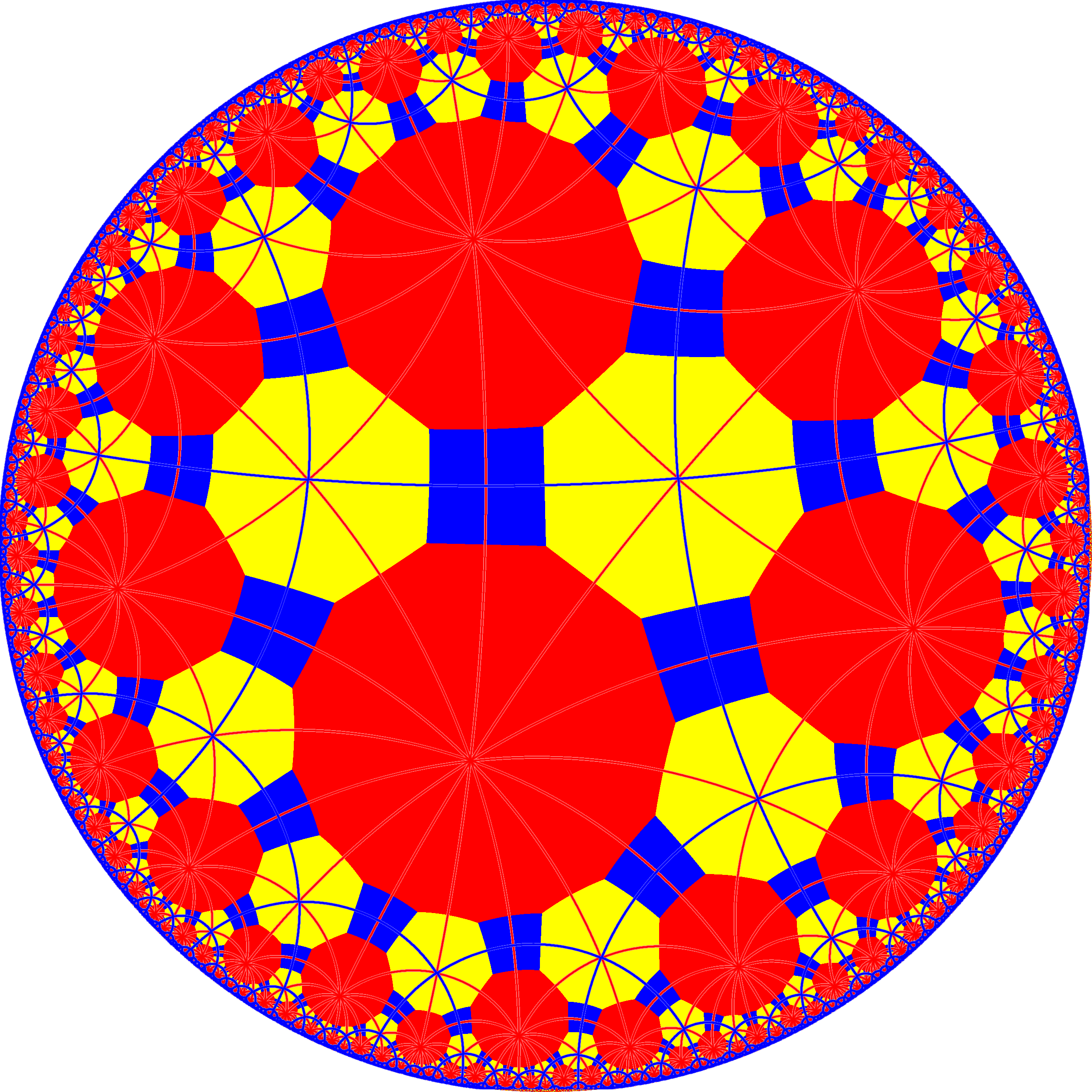 file:H2_tiling_247-7.png with File:742_symmetry_000.png overlay